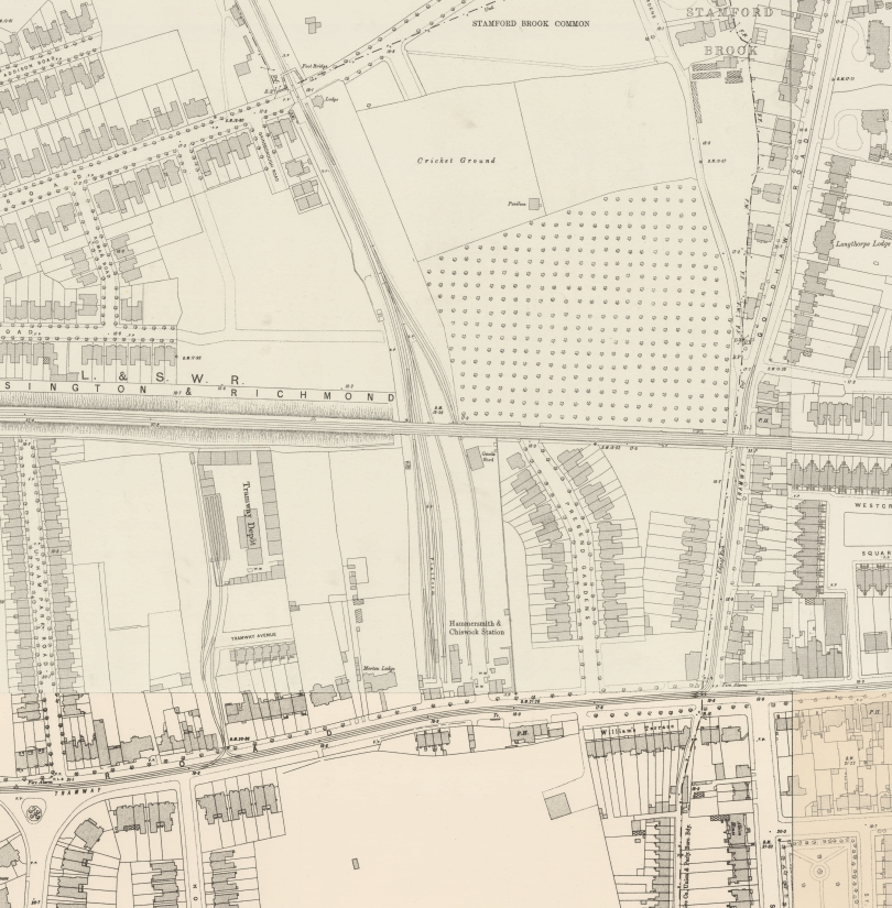 Ordnance Survey map showing Hammersmith & Chiswick railway station. Original map scale: 1:1056.